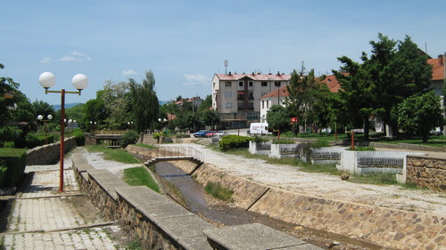 Pehcevo in Republic of Macedonia